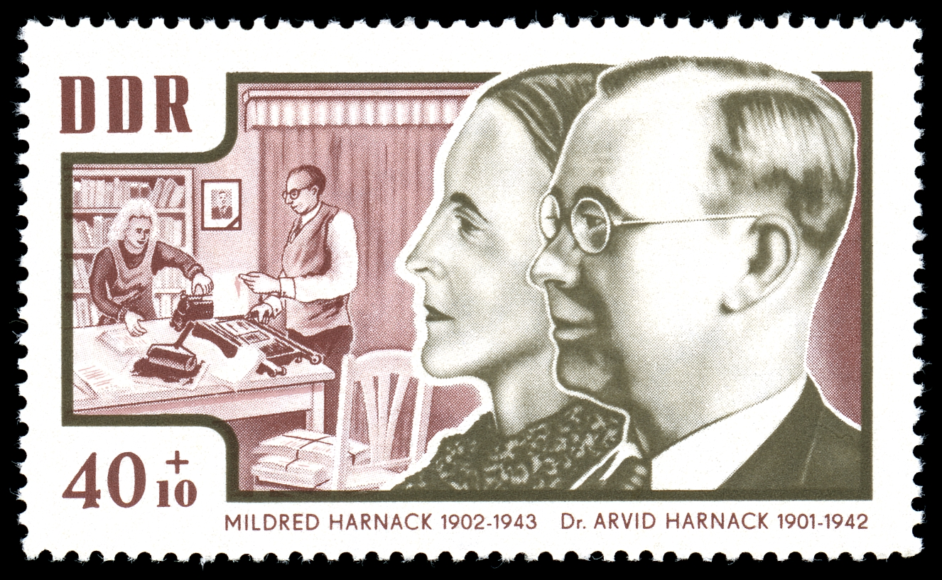 Ausgabepreis: 40+10 Pfennig First Day of Issue / Erstausgabetag: 24. März 1964 Auflage: 1.200.000 Entwurf: Sauer Druckverfahren: Offsetdruck Michel-Katalog-Nr: Ländercode-MiNr: 1019 Licensing This file is most likely NOT in the public domain. It has been marked for review, and will be deleted in due course if the review does not find it to be in the public domain.This file was previously considered to be in the public domain as a German stamp; it is possible that it is in the public domain for other reasons, in which case a new rationale will be applied as part of the review process. See below for the previous rationale. Previous public domain rationale, no longer applicable This stamp is in the public domain in Germany because it was released by the postal administration of the German Democratic Republic or the Soviet occupation zone (Deutschen Post der DDR) whose legal successor is the Federal Republic of Germany. Thus it is an official work according to German copyright law (§ 5 Abs. 1 UrhG).